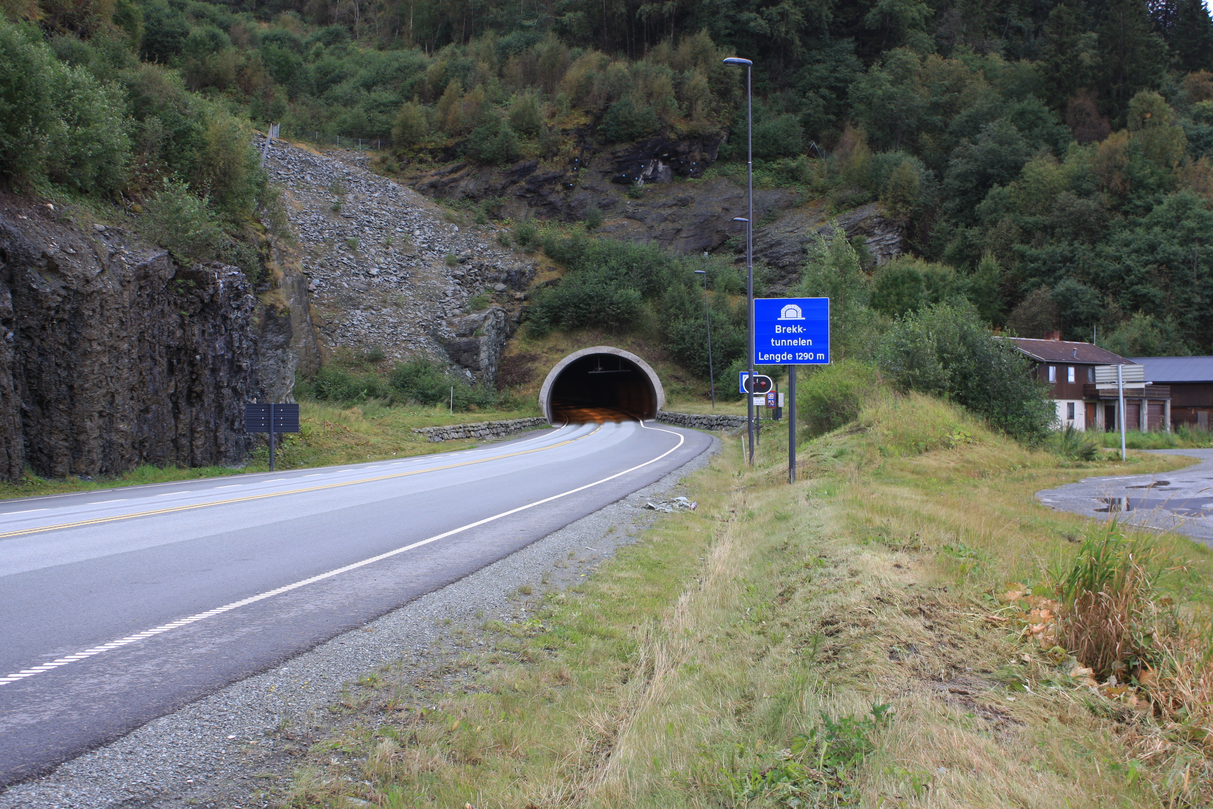 Northeast entrance.